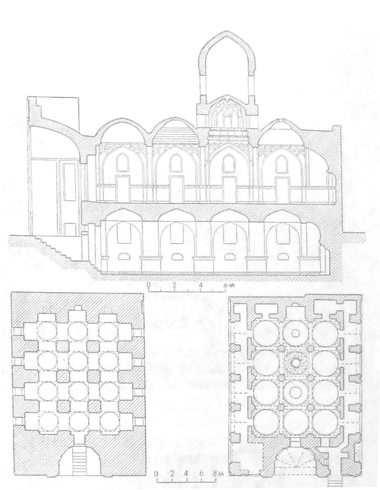 Scheme of Magoki-kurpa mosque from Bukhara, Uzbekistan.